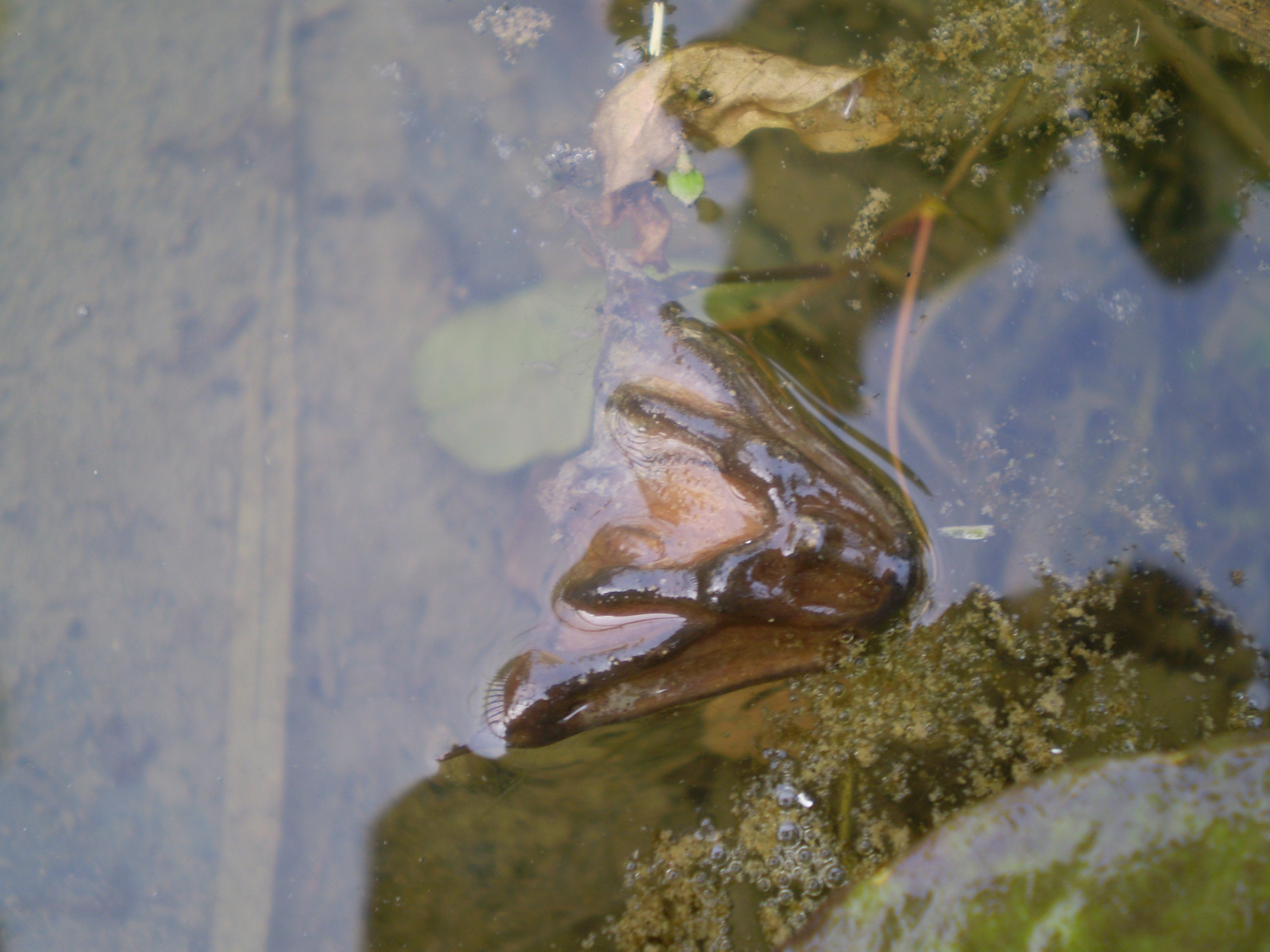 Trapa japonica nut